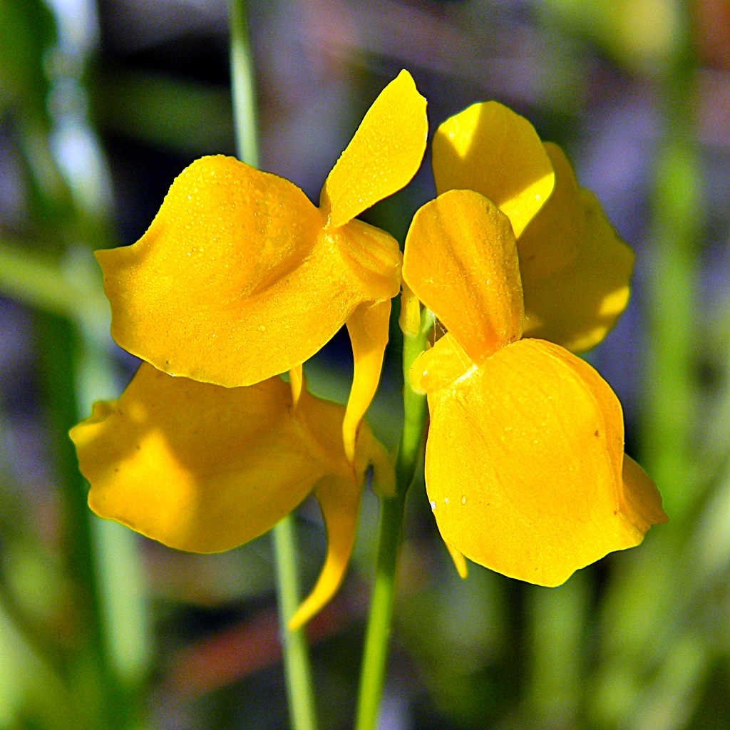 The carnivorous Horned Bladderwort (Utricularia cornuta) growing along a pond margin in the pine flatwoods of Jonathan Dickinson State Park, Martin County, Florida in August 2010